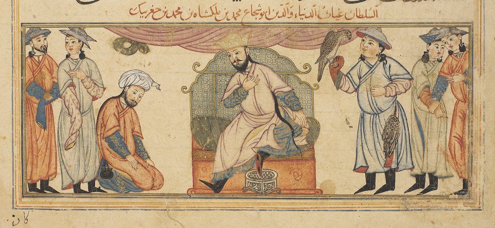 Illustration of the Seljuk Sultan Muhammad I Tapar and his court.